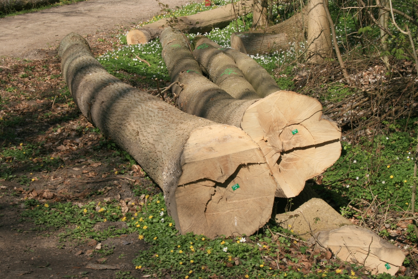 150 year old oaks felled as timber at Hørret Forest south of Århus, Denmark. The logs are about 8 m long.